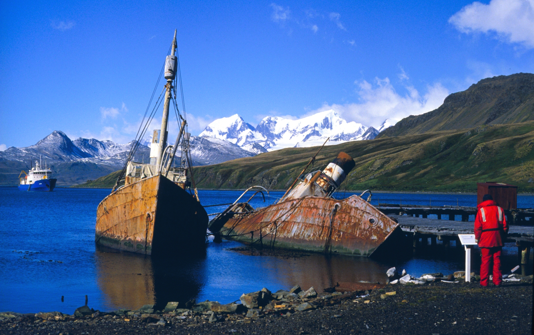 Abandoned whaling boats at Grytviken, South Georgia